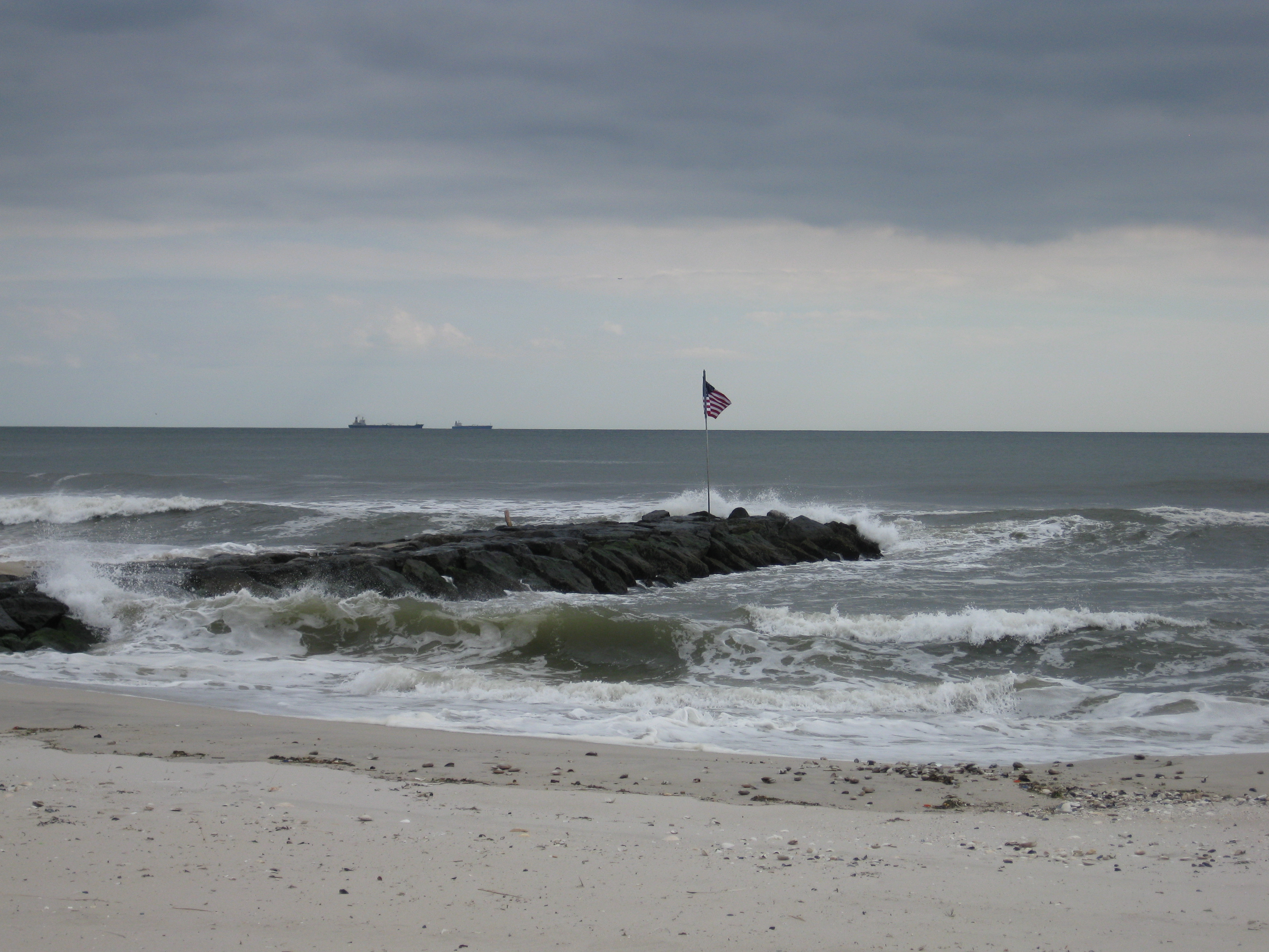 A rock groyne at Atlantic Beach, New York.